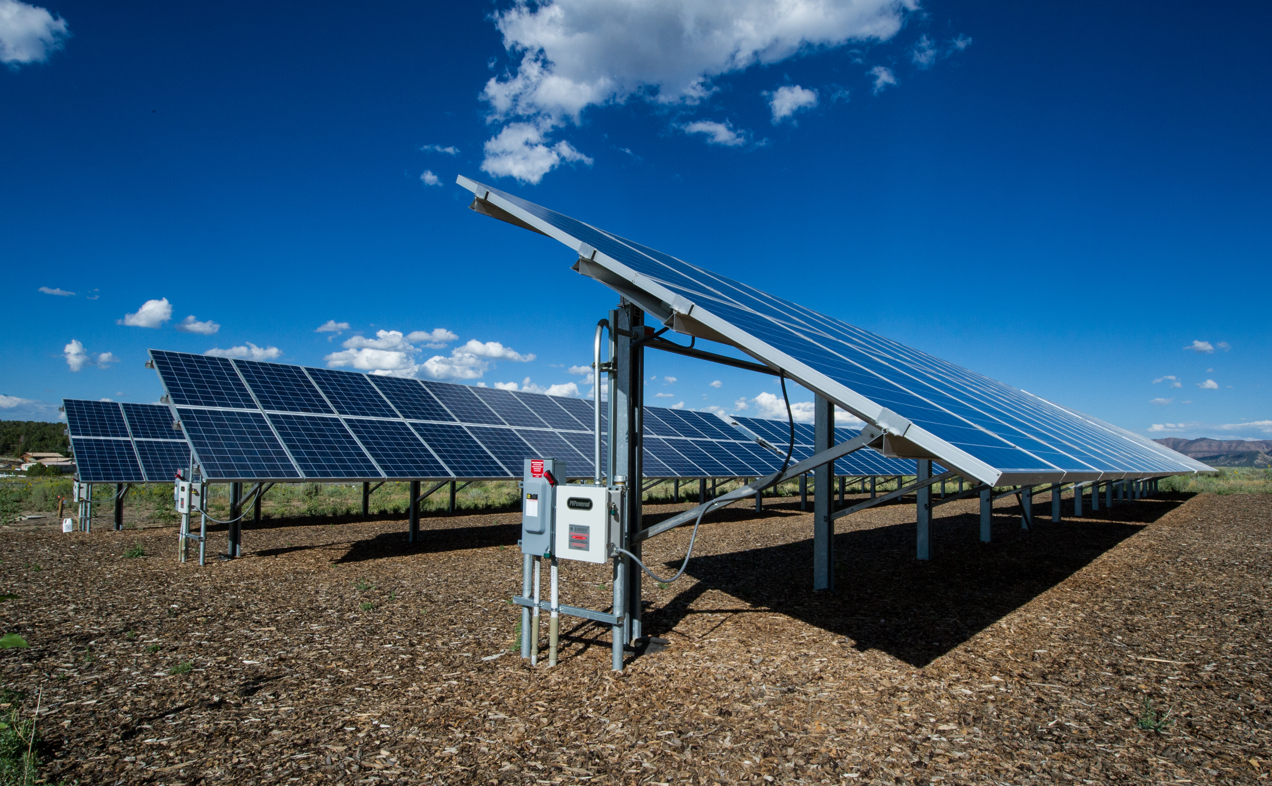 July 30, 2013- 67 kW (STC rating) photovoltaic array at the Mesa Verde Visitor and Research Center in Montezuma County, Colorado. The array consists of 286 Schott Poly 235 watt solar modules (13.8% efficiency) wired in 22 series strings of 13 modules per string. Coupled with a micro-hydro system and solar water heating, the on-site renewable energy systems are capable of providing 95% of the building energy requirements. (Photo by Dennis Schroeder / NREL)